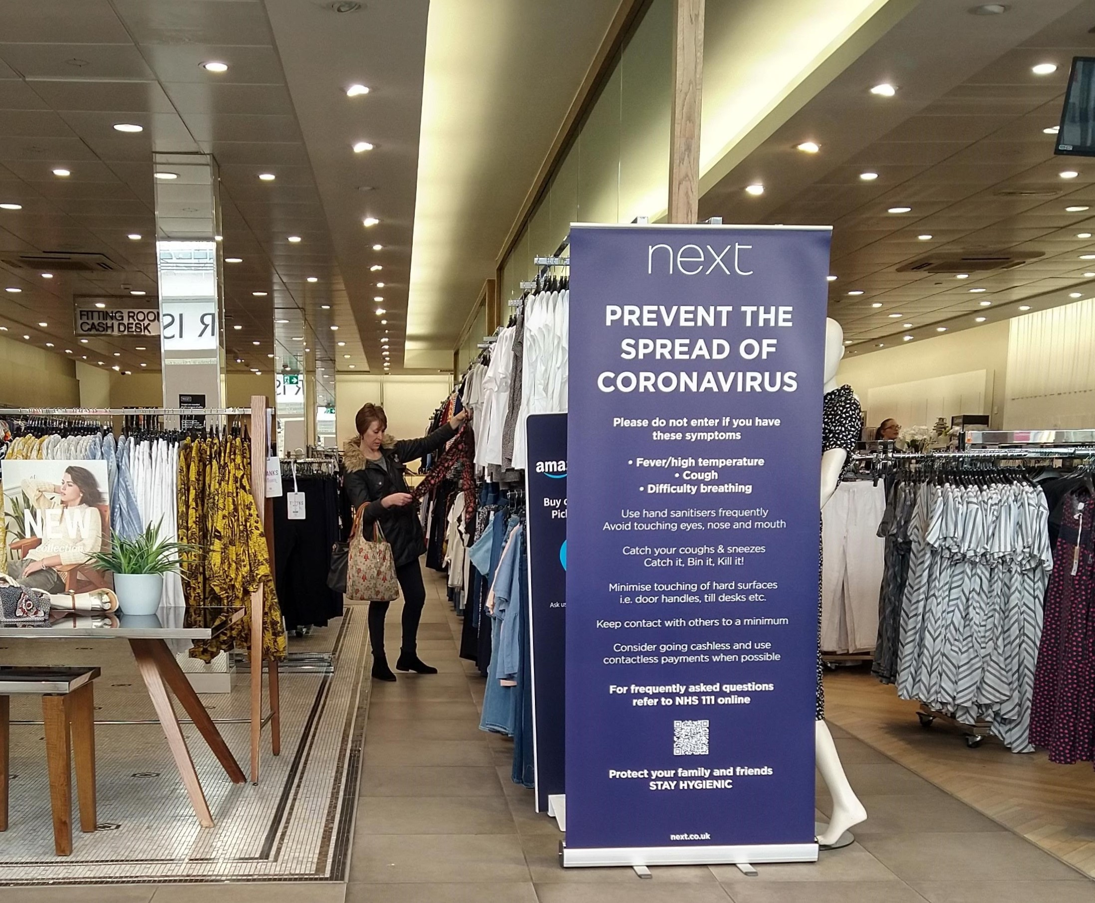 NEXT Enfield still trading during the Coronavirus outbreak